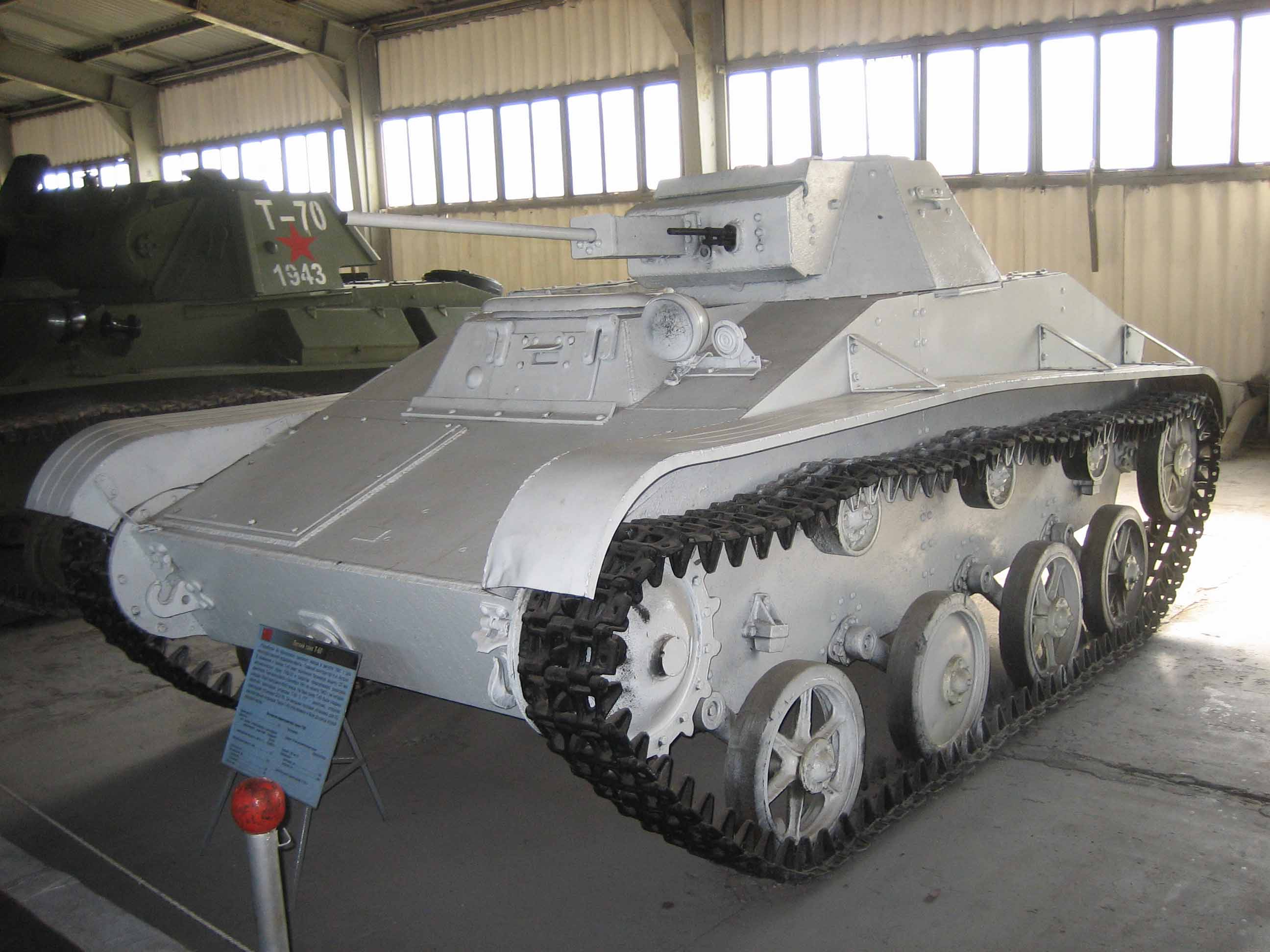 Soviet light infantry tank T-60, displayed in Kubinka Tank Museum. Photo taken on September 23, 2006. Source: Photo by me, User:Saiga20K.